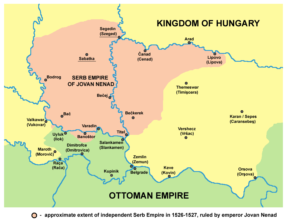 historical map showing Serb Empire of Jovan Nenad in 1526-1527, English language version.